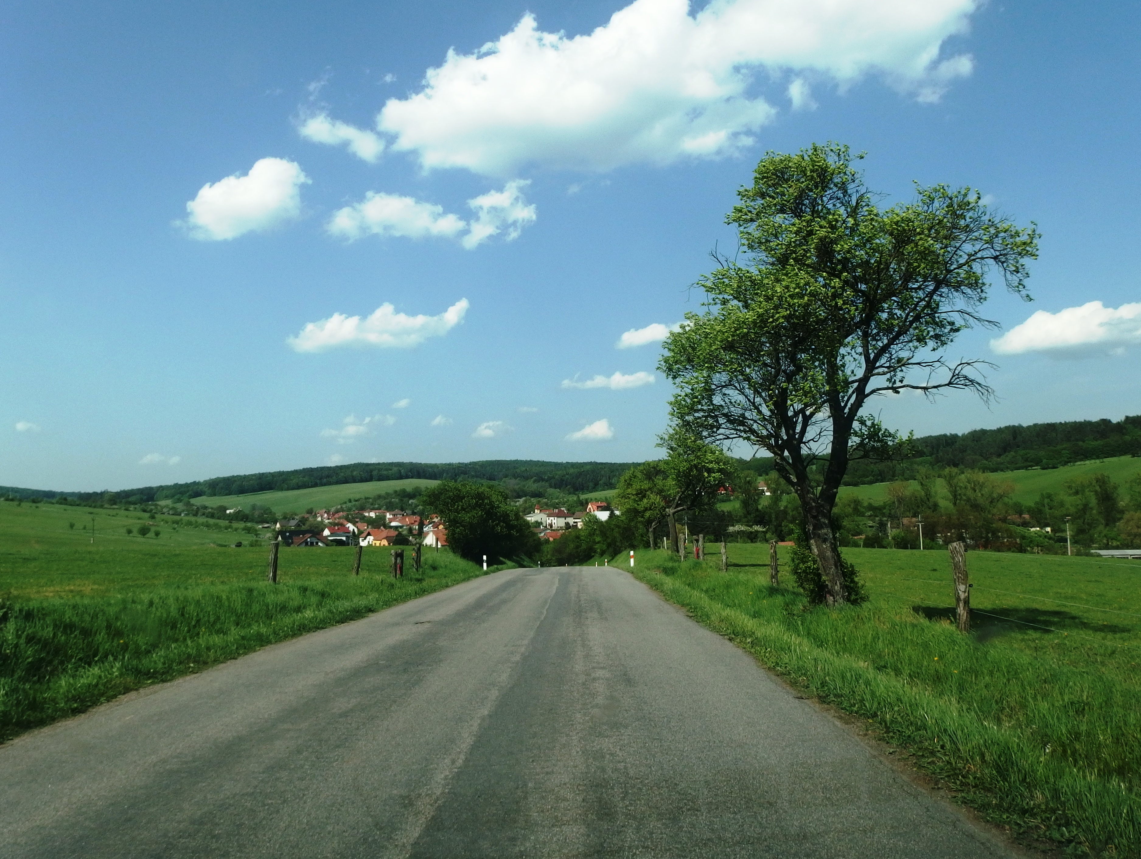 Slavičín, Zlín District, Czech Republic, part Nevšová.